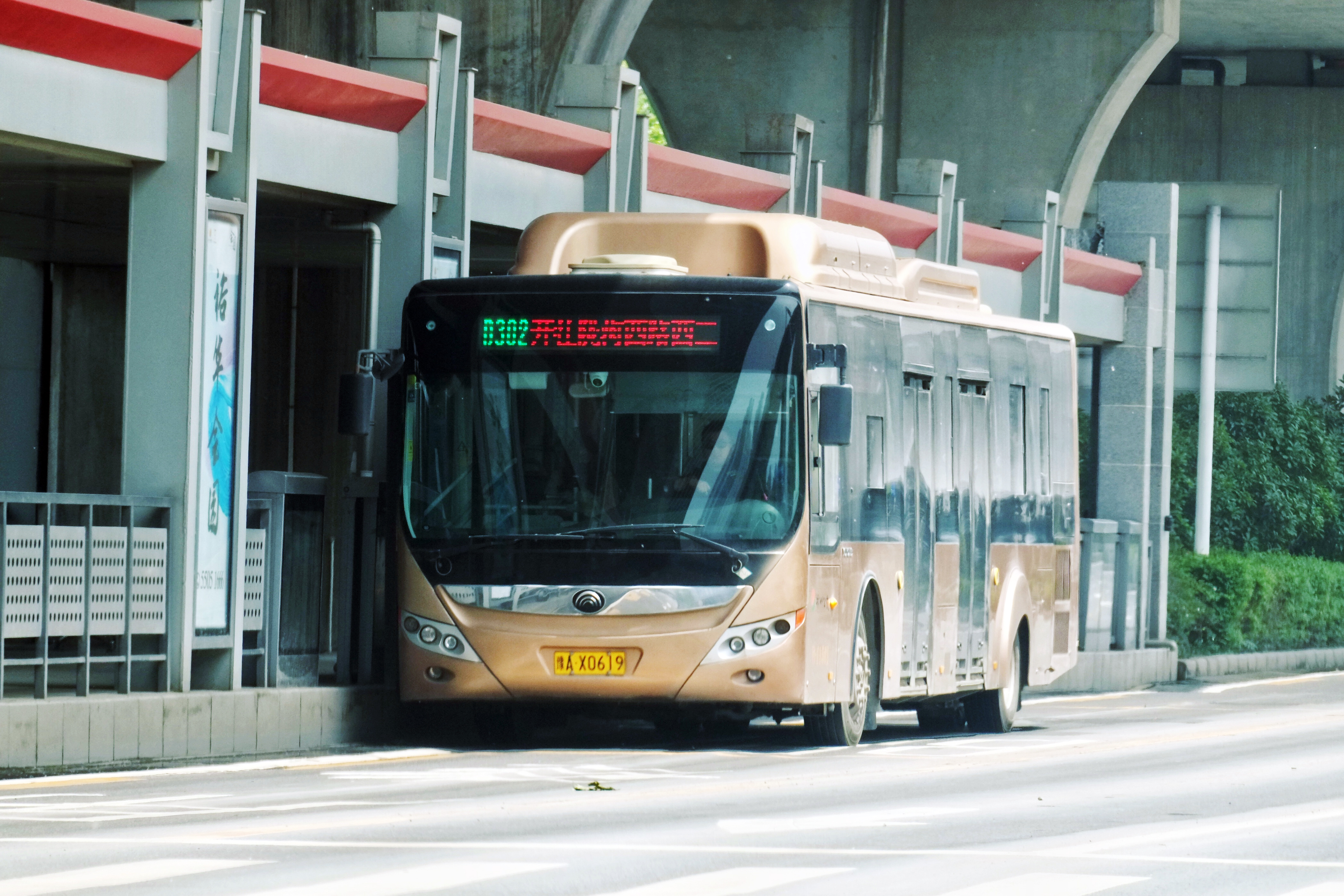 A Yutong 12m hybrid powered bus on Zhengzhou BRT Route B302 on N. 3rd Ring Road in Zhengzhou